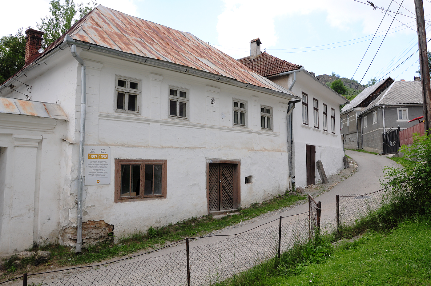 Historic houses in Rosia Montana.